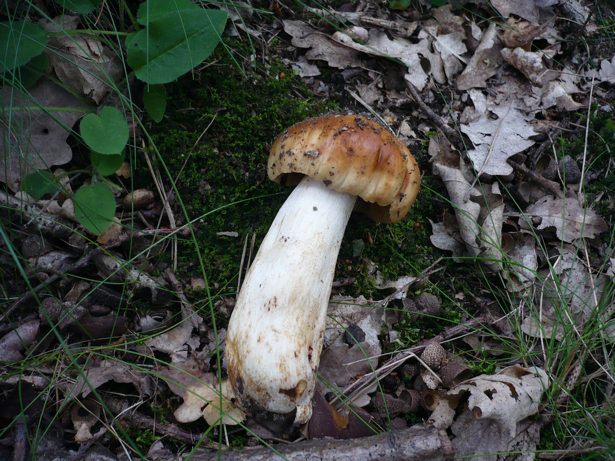 Russula subfoetens Smith